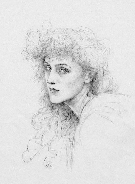 Self Portrait